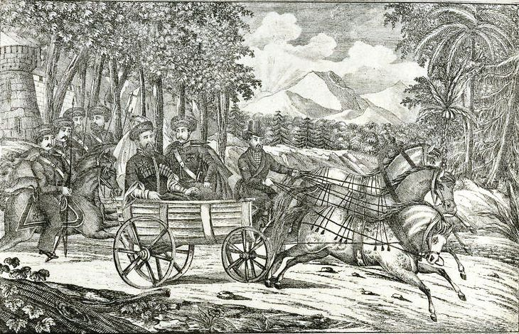 Shamil, imam of Checnya and Dagestan. Russian lubok, with a first-hand account of his capture and imprisonment by Russian forces.